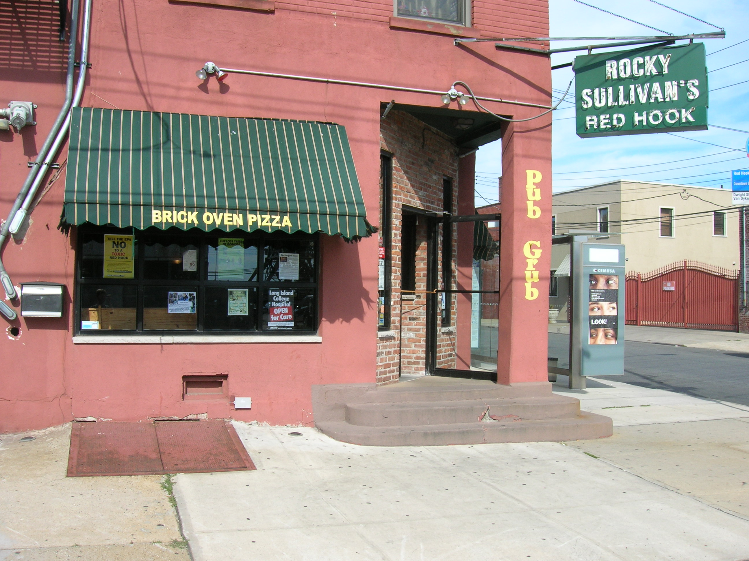 picture of Rocky Sullivan's pub in Red Hook, taken from across Van Dyke Street